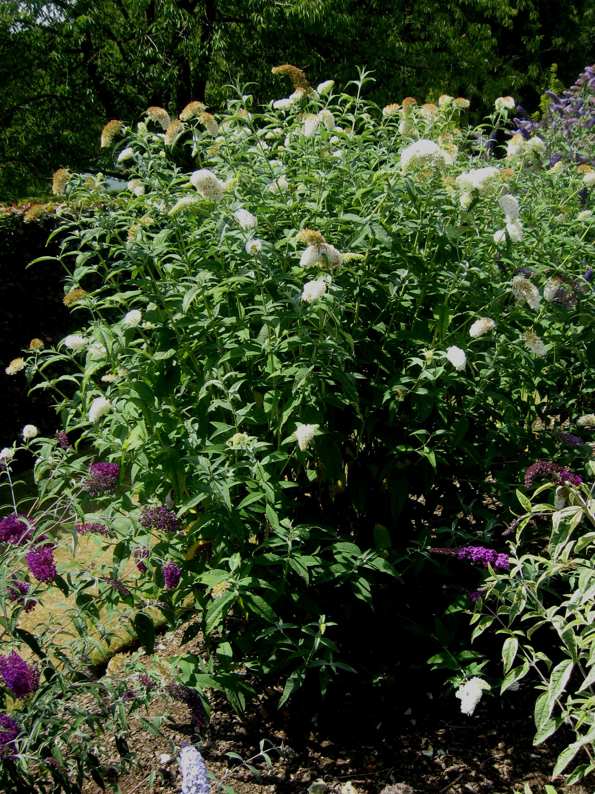 Photo of Buddleja davidii 'White Wings' plant, Longstock Park, UK